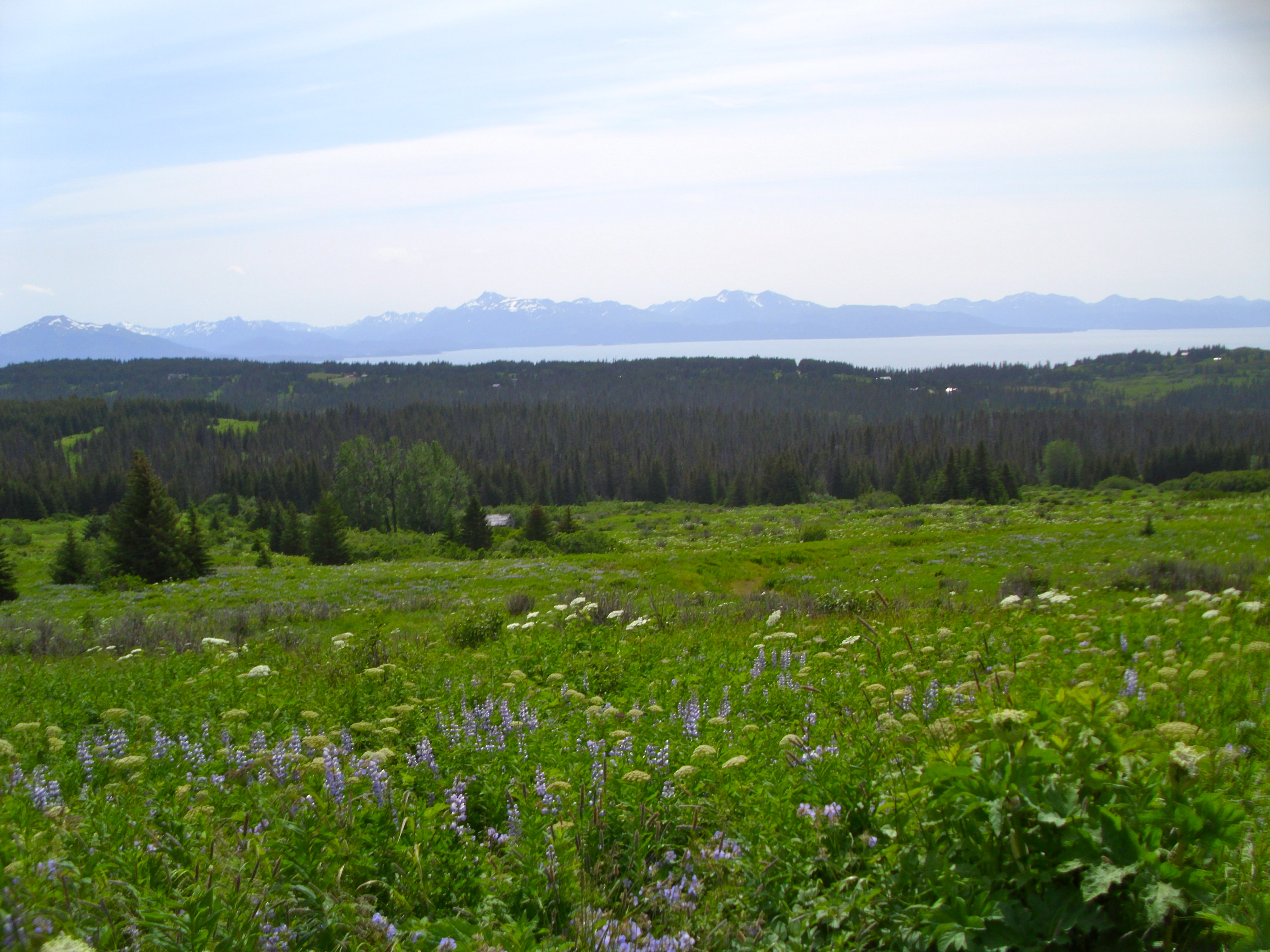 View of Kachemak Bay and the Kenai Mountains from Diamond Ridge, just outside of Homer, Alaska